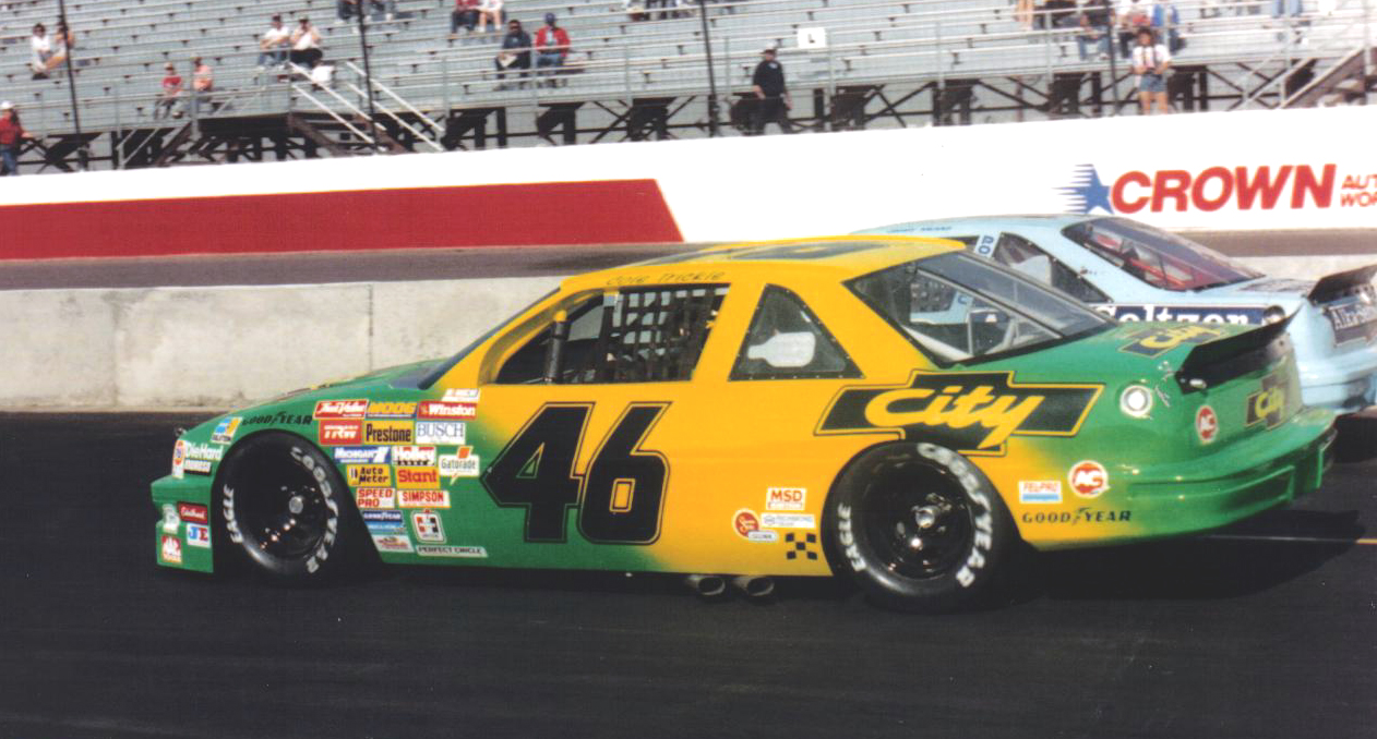 This was the car featured in the movie "Days of Thunder" driven by the Tom Cruise character Cole Trickle.